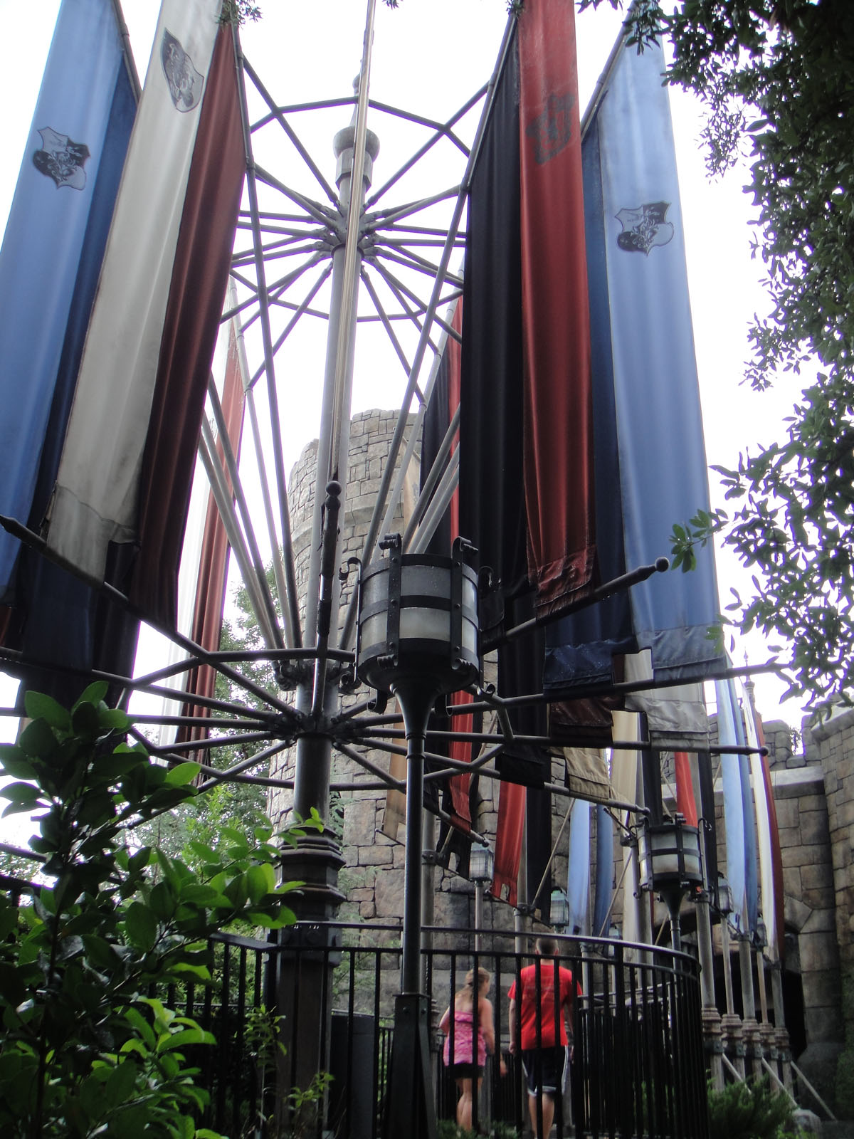 Wizarding World of Harry Potter - entrance to the Goblet of Fire Dragon Challenge ride